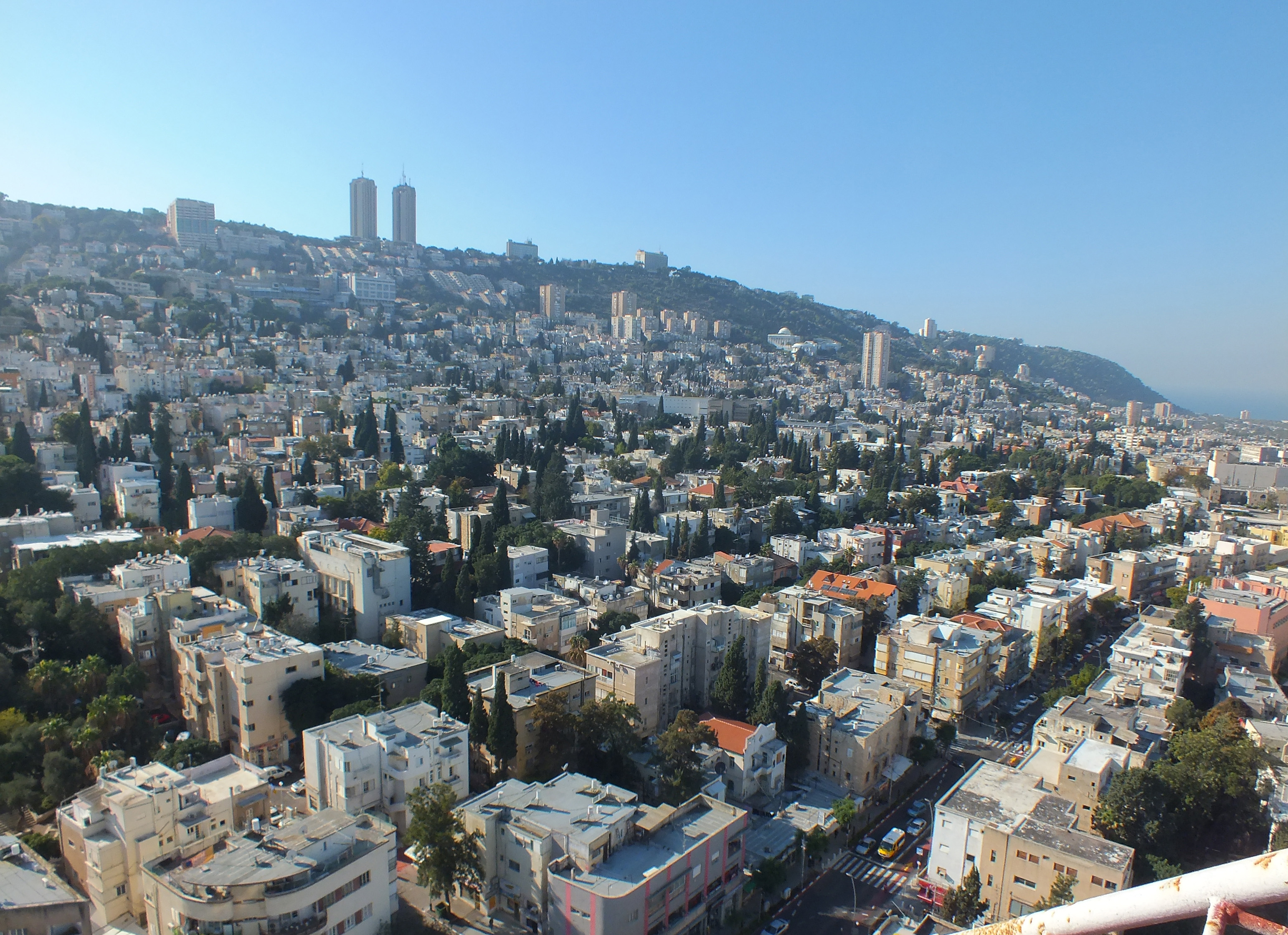 Back to Haifa. The nice contour of the Carmel ridge is Hadar's unchangeable backdrop.